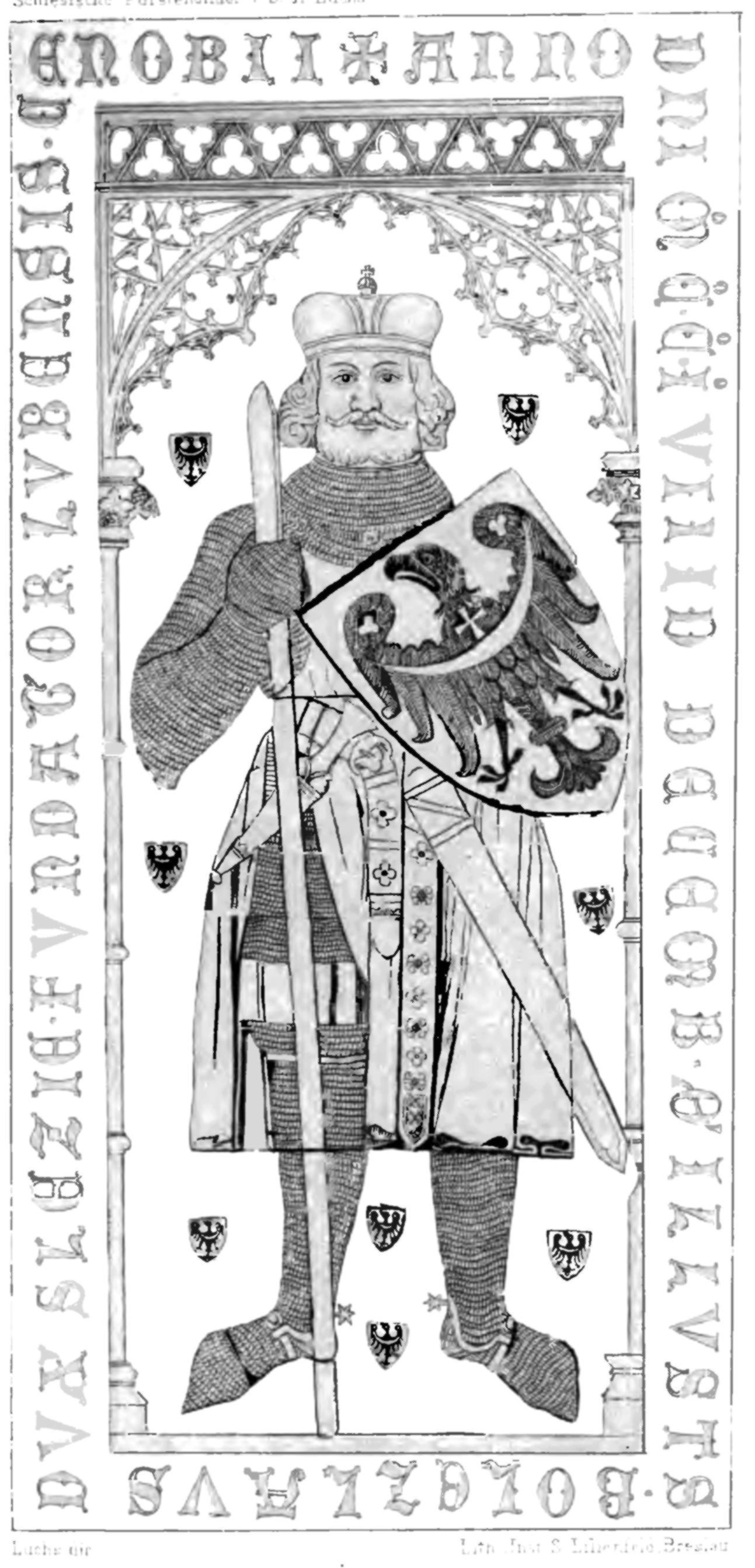 Boleslaus Dux Slezie Fundator Lubensis tomb effigy (Bolesław I Wysoki)